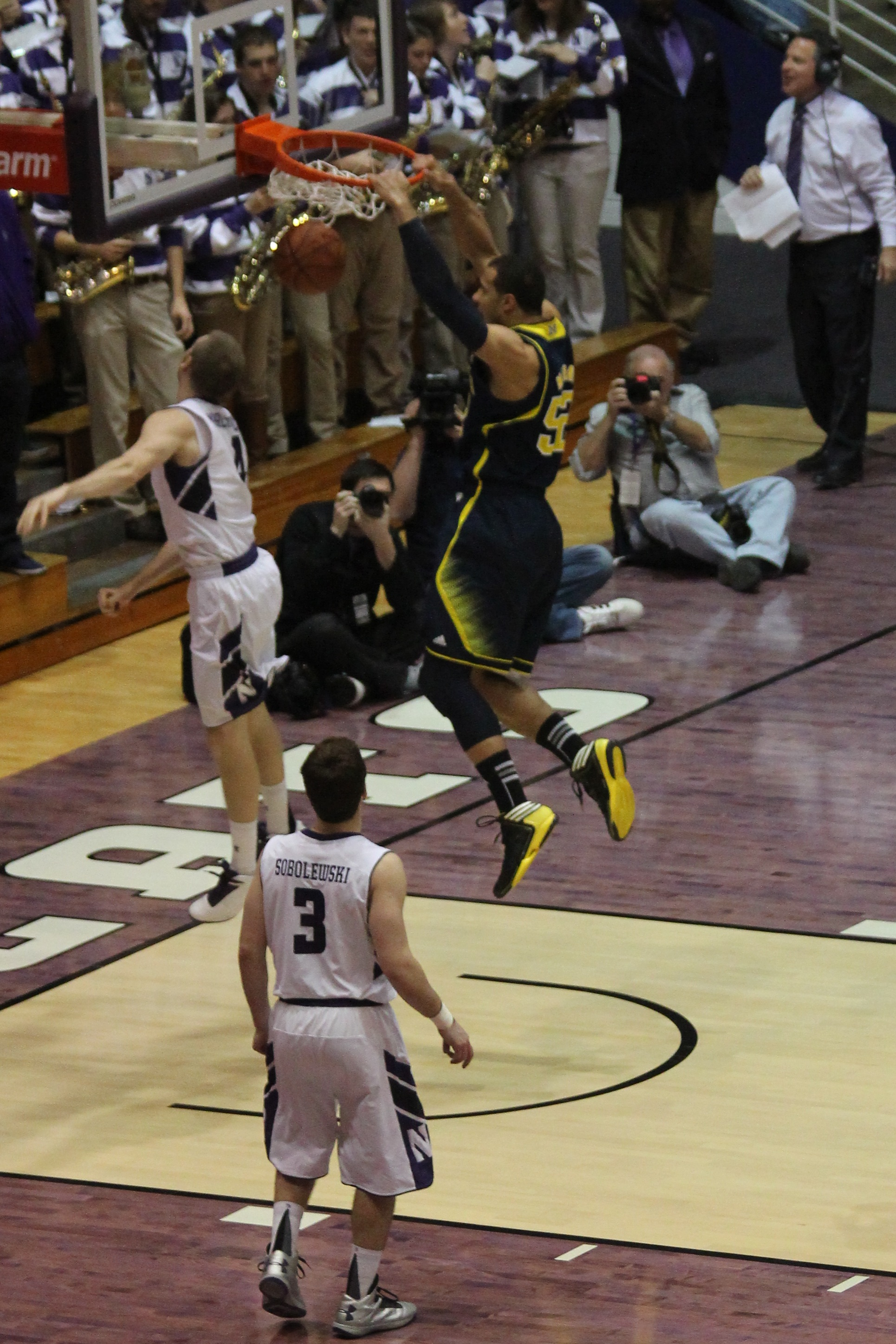 Jordan Morgan making a slam dunk for the 2012–13 Michigan Wolverines men's basketball team against 2012–13 Northwestern Wildcats men's basketball team